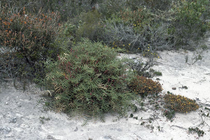 Banksia pteridifolia subsp. pteridifolia near Jerramungup, Western Australia